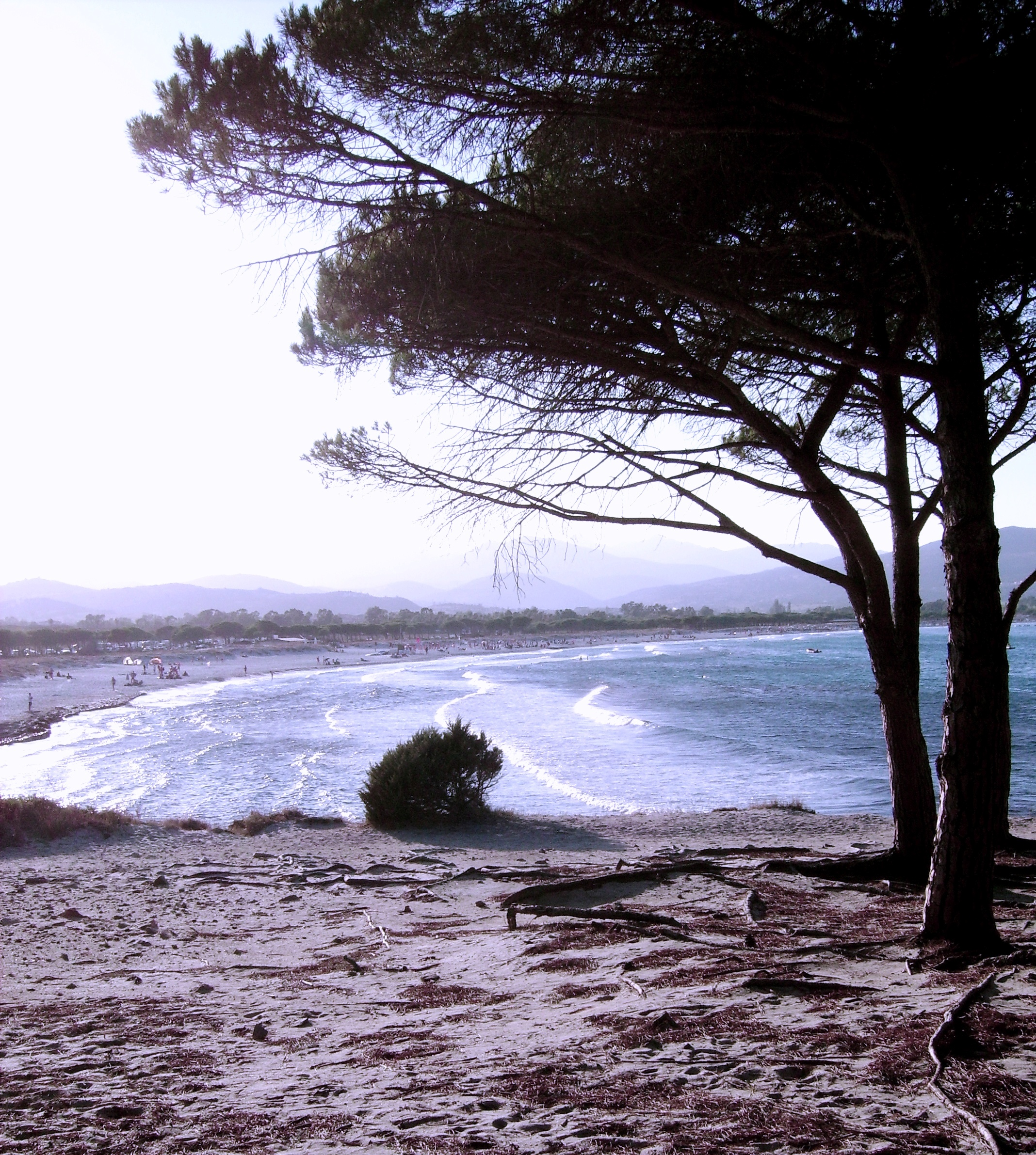 Sardinia Italy Tanaunella (Budoni) Sant'Anna beach Own work - august 2006 - by --Shardan 02:12, 12 November 2006 (UTC)